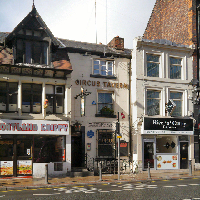 Circus Tavern in Portland Street, Manchester. Claimed to be the smallest bar in Europe